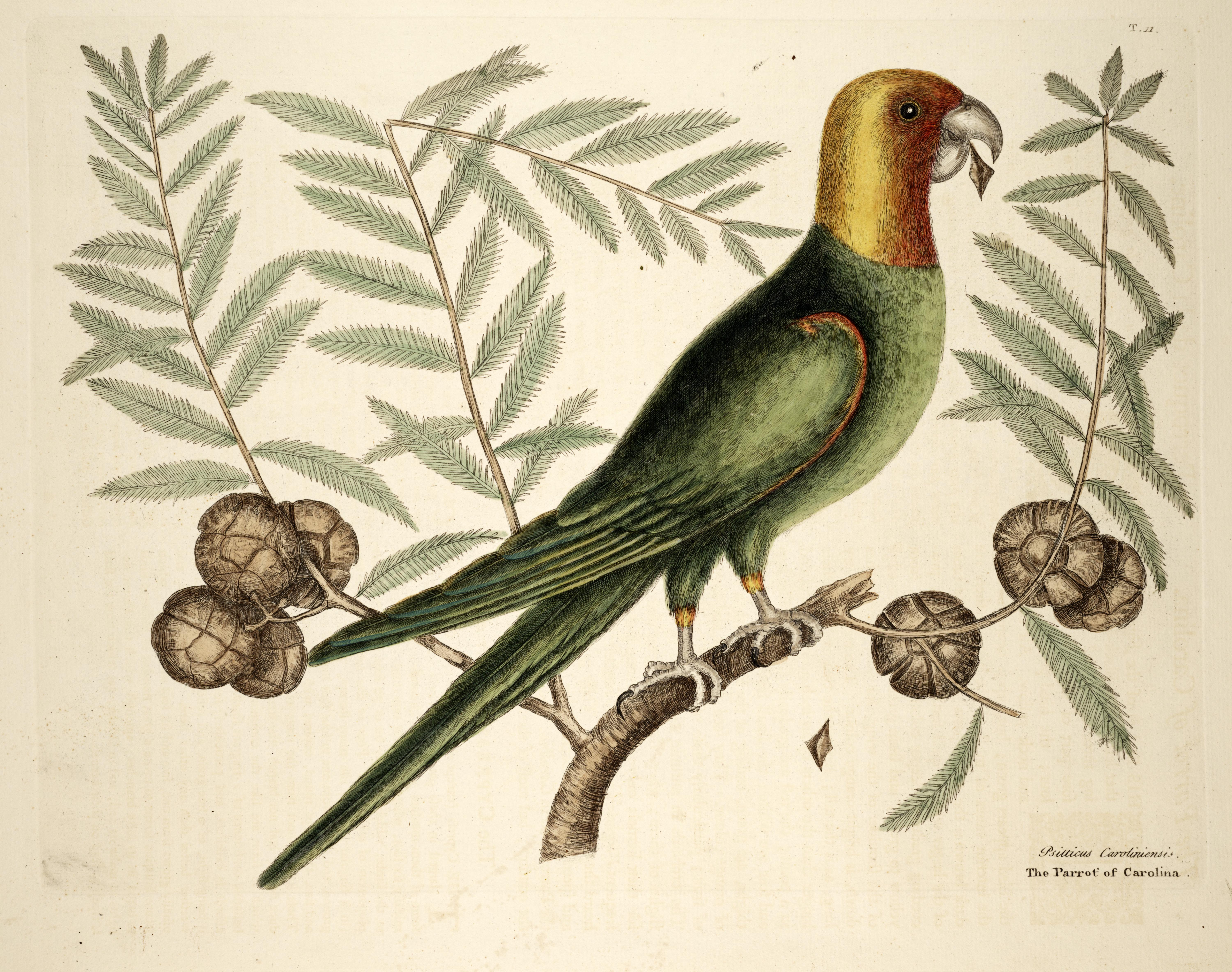 Plate 11 in Volume 1 of The Natural History of Carolina, Florida and Bahamas by Mark Catesby, George Edwards published in 1754. Also mentioned as Psitticus Caroliniensis